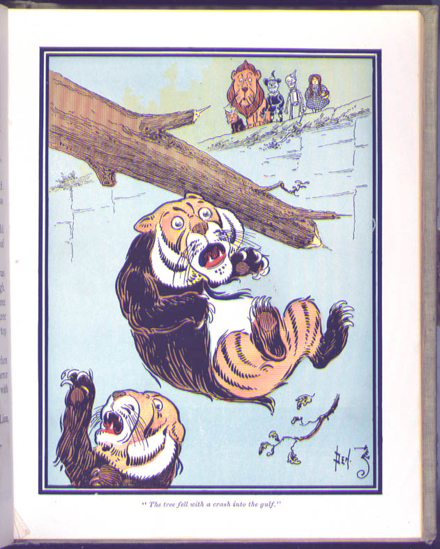 An illustration by W. W. Denslow from The Wonderful Wizard of Oz, also known as The Wizard of Oz, a 1900 children's novel by L. Frank Baum.